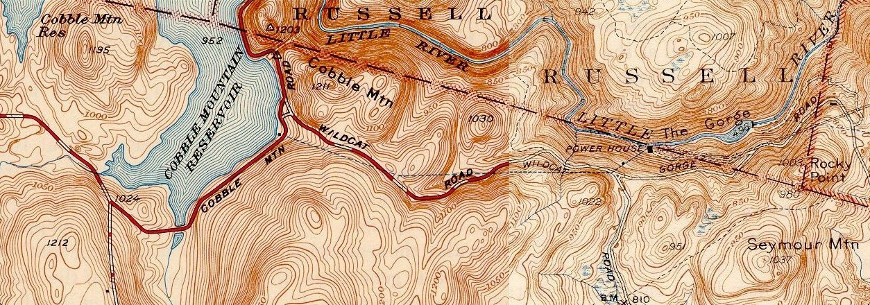 Topographic map of Wild Cat Aqueduct, West Granville, Massachusetts, USA.